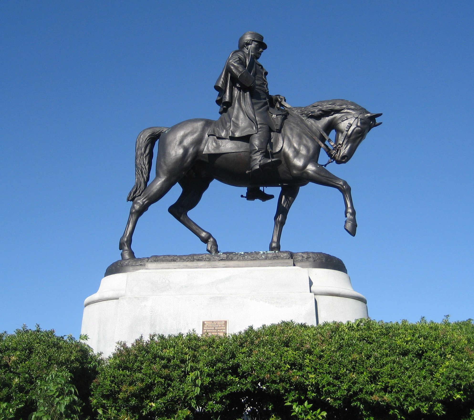 New Orleans: Monument to P.G.T. Beauregard at Carrollton & Esplanade Avenues